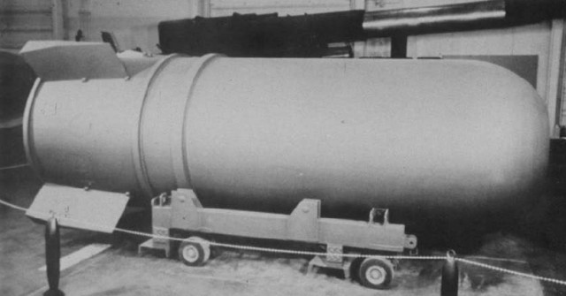 Casing of a U.S. B41 thermonuclear bomb.